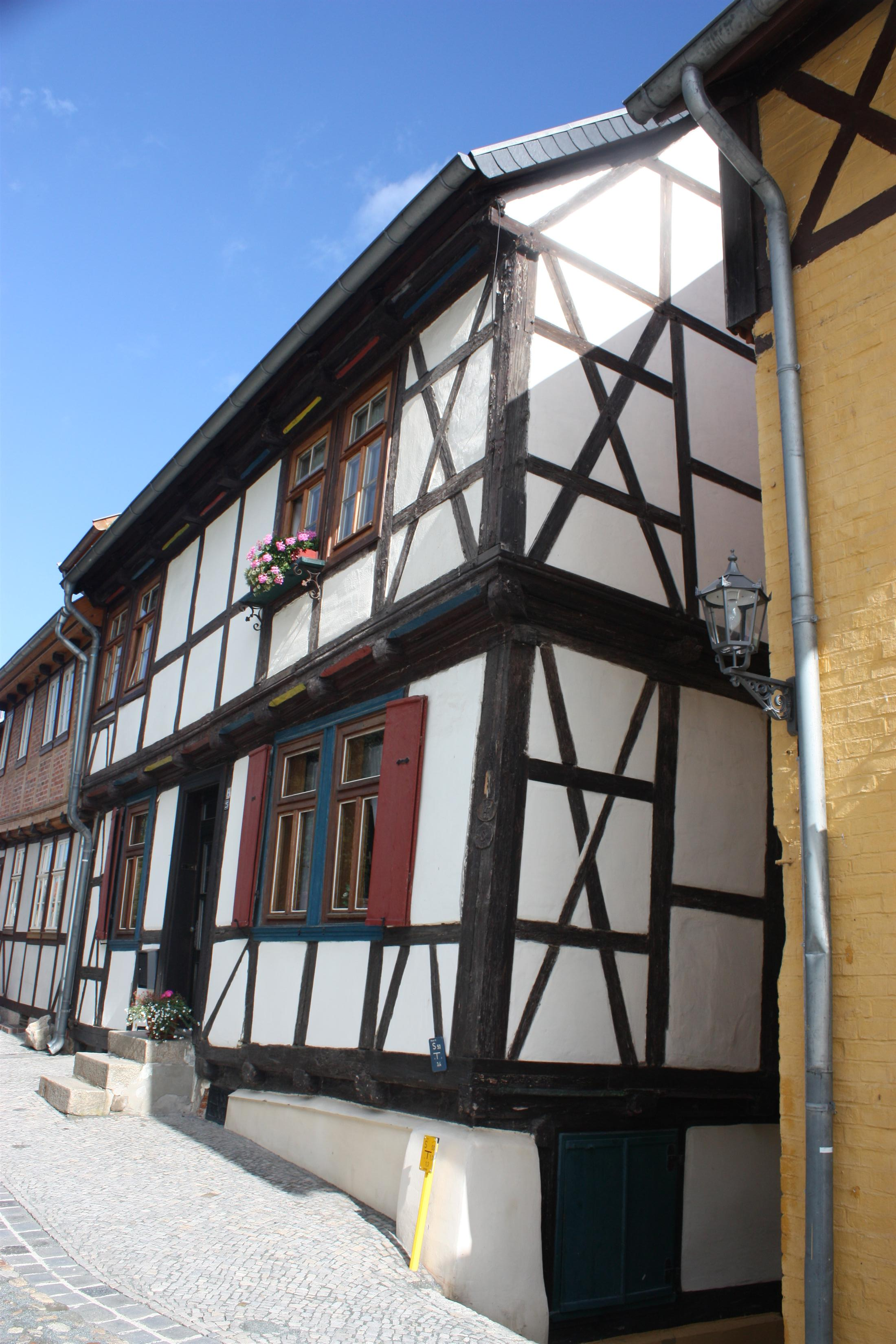 This is a photograph of an architectural monument.It is on the list of cultural monuments of Quedlinburg Quedlinburg Schloßberg